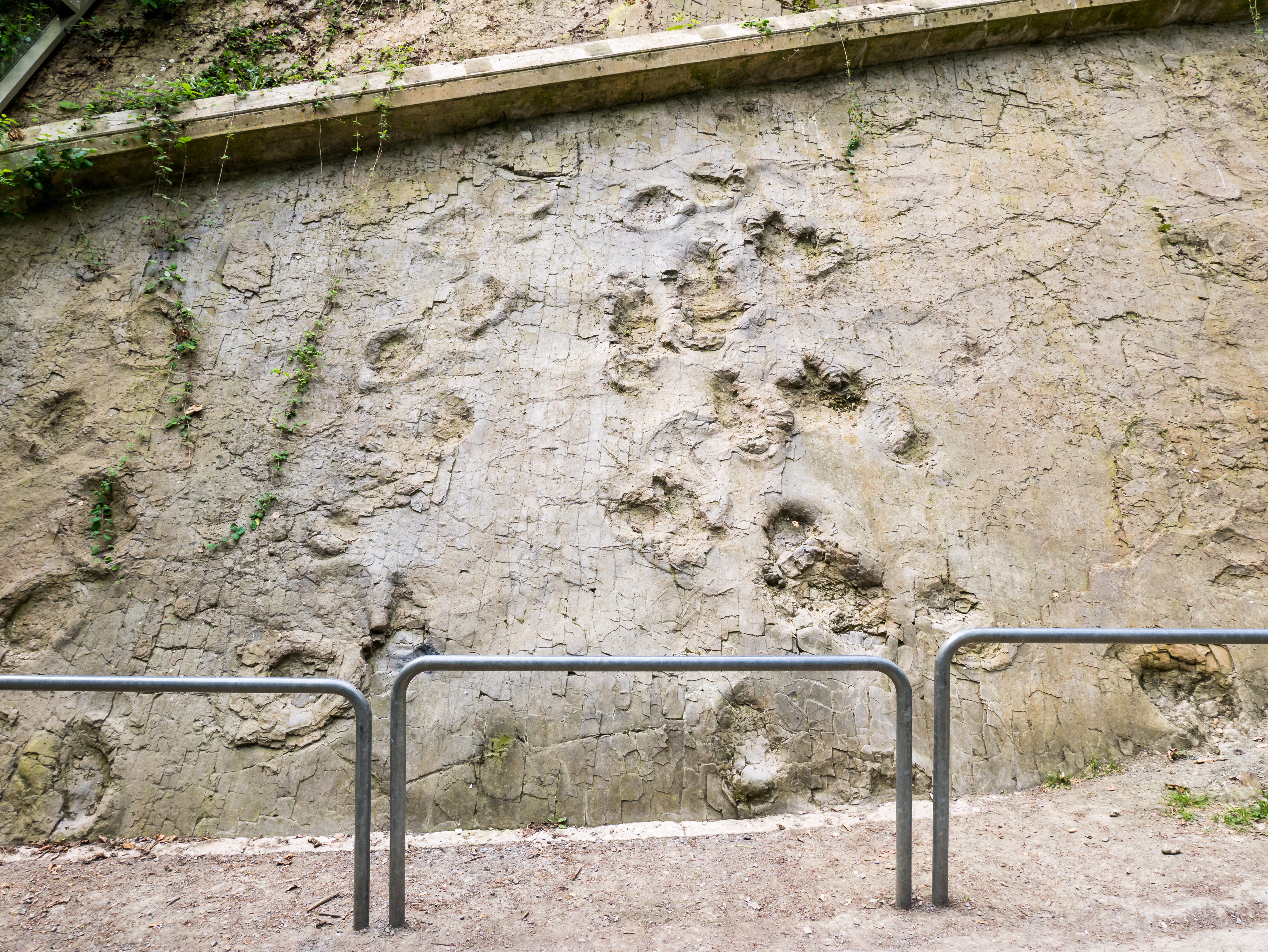 Dinosaur tracks (Sauropoda/Theropoda) at Barkhausen. Bad Essen, Osnabrück Land, Lower Saxony, Germany